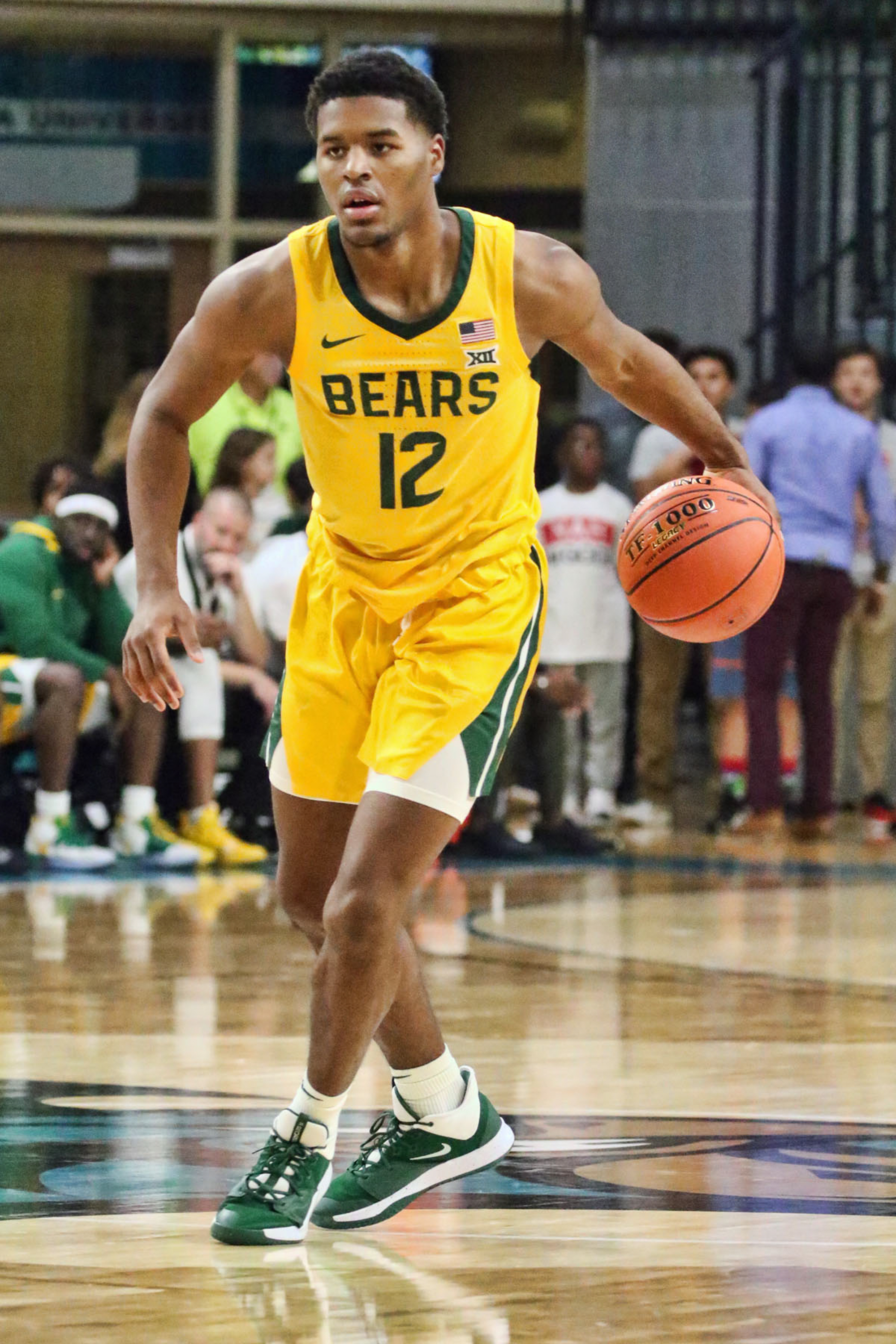 Jared Butler with Baylor in November 2019